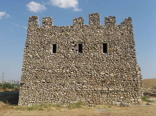 Mausoleum of the king Skilurus in Scythian Neapolis, Crimea. This settlement that existed from the end of the 3rd century BC until the second half of the 3rd century AD. See Scythian Neapolis